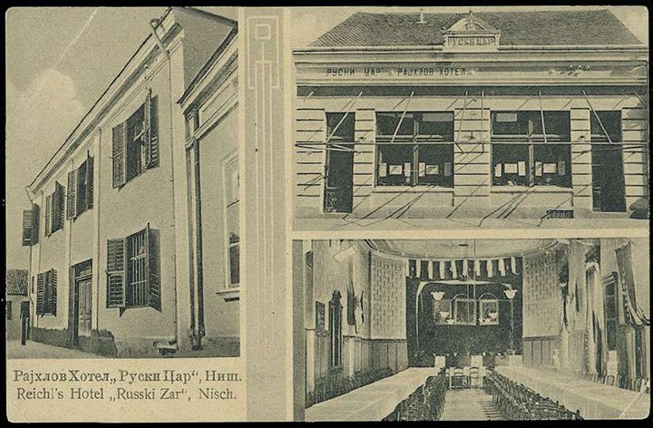 Hotel Russian Emperor in Nis